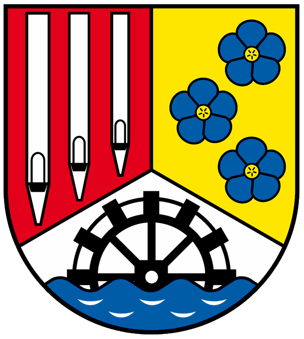 Coat of arms of Mulda/Sachsen